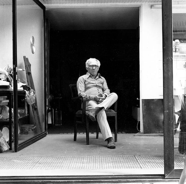 Adolph Luther by Lothar Wolleh